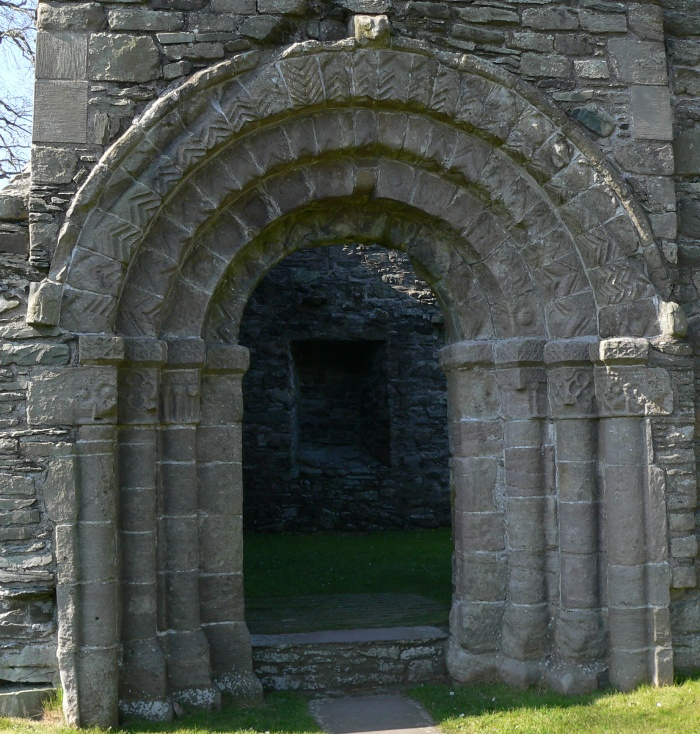 Whithorn Priory, Whithorn, Dumfries and Galloway, Scotland - west entrance of nave